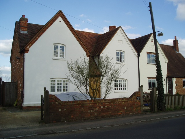 The Old Station House, Westcott. This house is one of the last remaining pieces of evidence of the Brill Tramway, originally a horse drawn railway that then became steam operated and would eventually be run by the London Underground's Metropolitan Railway!